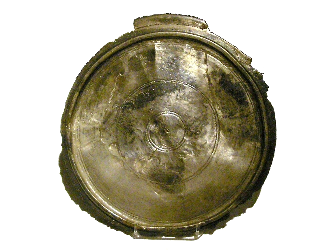 Plate, 1st to the 4th century A.D., silver. Part of the Treasure find. The silver vessels and the bracelet were found together with 274 coins in the rubble after the bombing of Vienna's inner city in 1945. The casserole, most especially, with the gold inlaid inscription MERCVRIO, indicates that the vessels belonged to a temple inventory. There, they could ahve been used for mixing and pouring libation.